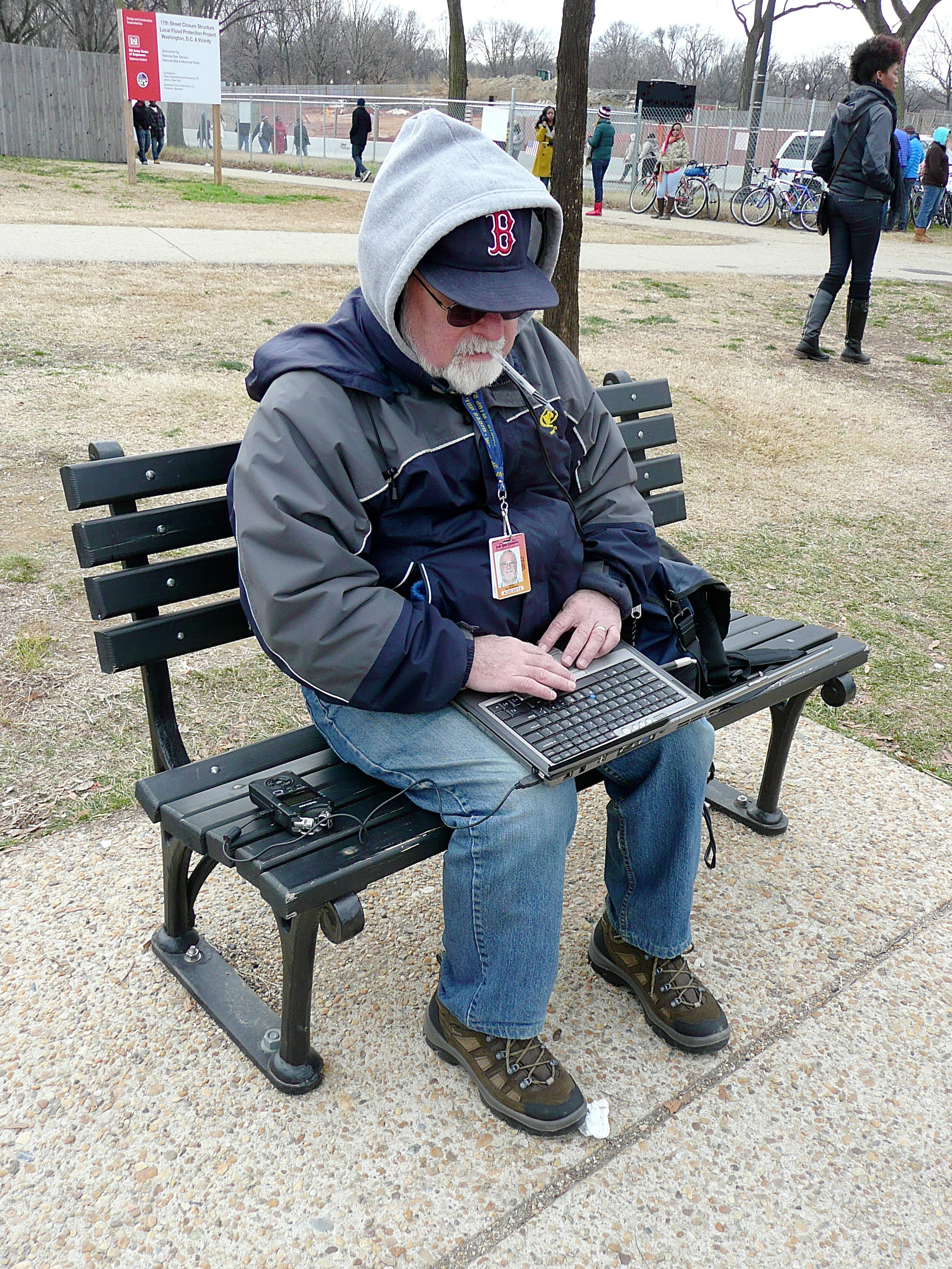 Second inauguration of Barack Obama